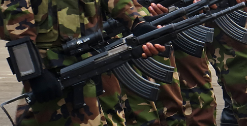 Modular Infantry: Bangladesh Army